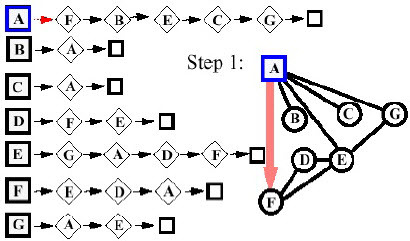 Dry run Depth-first search Algorithm in Graph, step 1